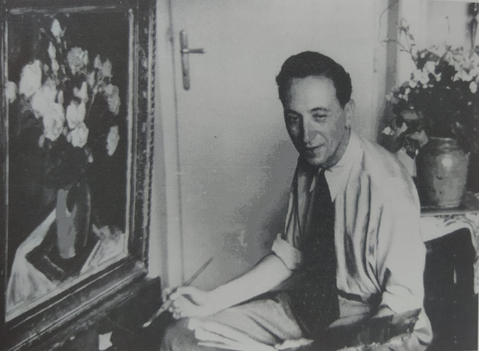 Nikola Bešević, Serbian painter, in his studio in Belgrade. Српски (ћирилица): Никола Бешевић, српски сликар, у свом атељеу у Београду.